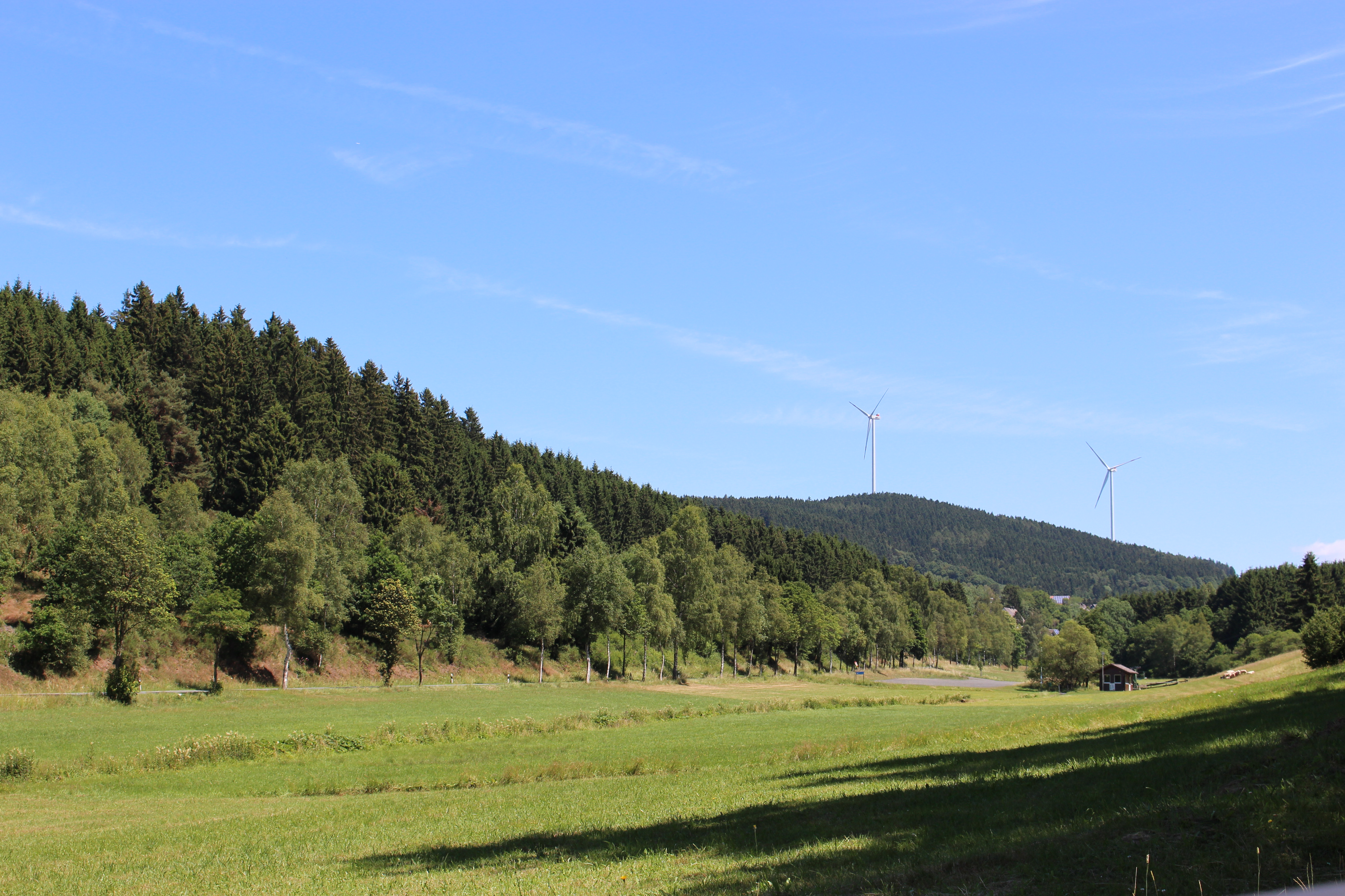 The Hesselbach is floating next to the skiing resort Hesselbach (Skigebiet Hesselbach), Germany.